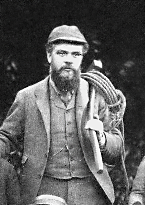 Photograph of Victor Alexander Bruce, 9th Earl Lord Elgin at his private estate in Scotland in 1889.